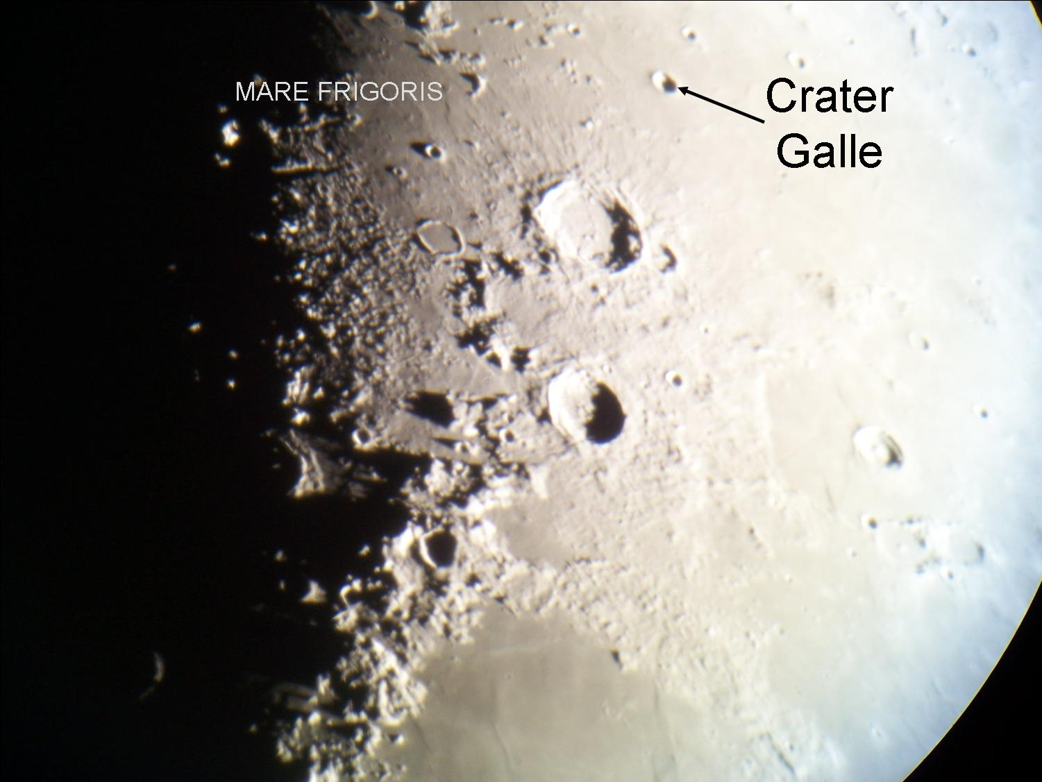 Crater Galle photographed by Eric S. Kounce of the West Texas Astronomers on October 28, 2006 from the McDonald Observatory's 36-Inch Telescope.